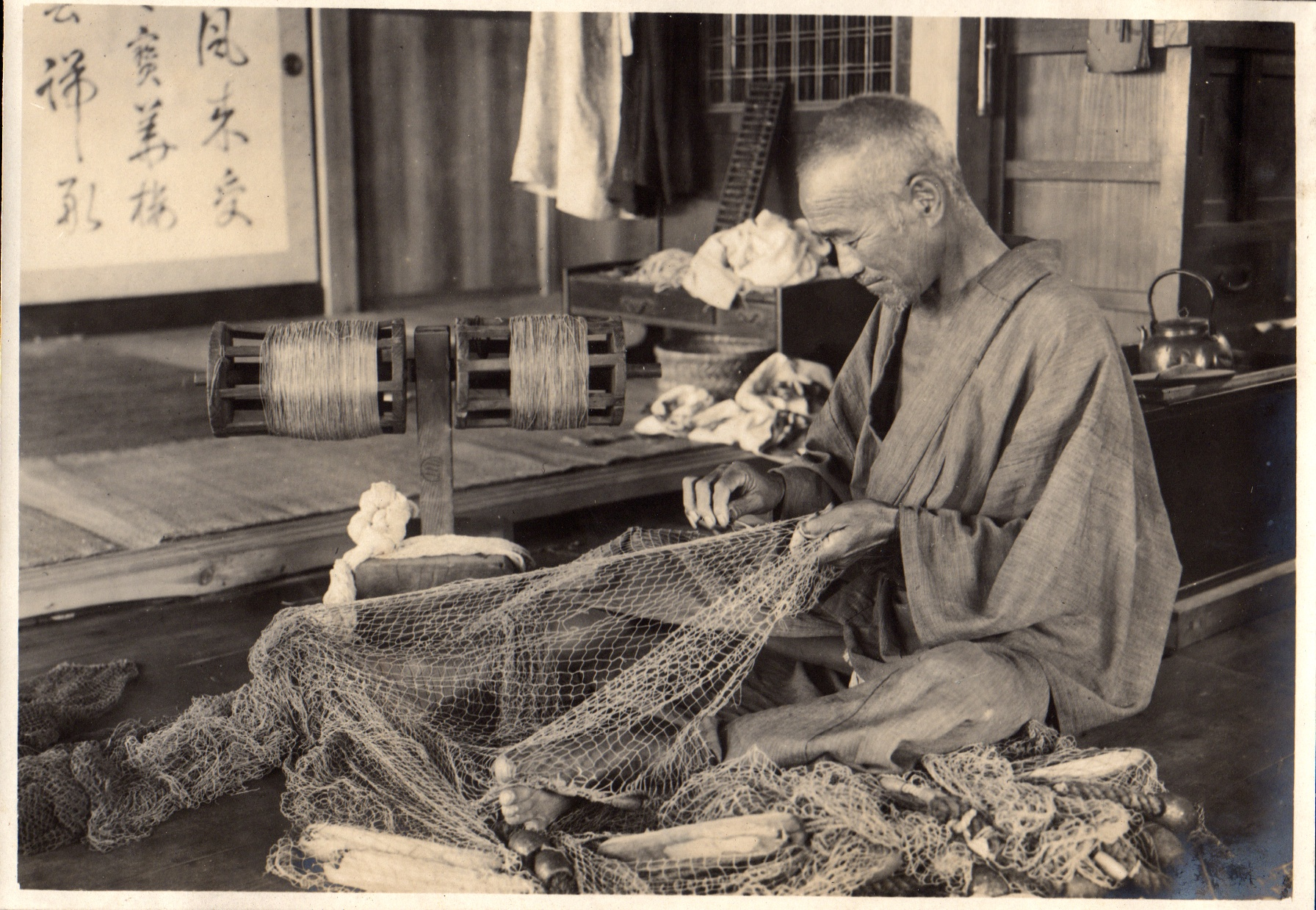 This photo is from an album Elstner Hilton compiled in Japan between 1914 and 1918. Elstner was my spouse's uncle. While Uncle Elstner was pretty good about annotating the photos that required an explanation of some sort, he did not date the pictures. So all we know is they were taken between January, 1914 and December, 1918.